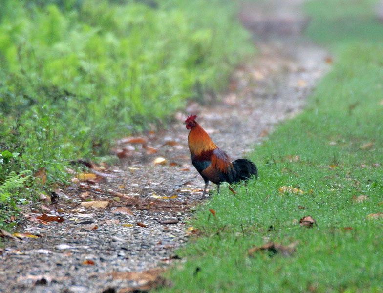 Red Junglefowl Gallus gallus at 23 Mile near Jayanti in Buxa Tiger Reserve in Jalpaiguri district of West Bengal, India.